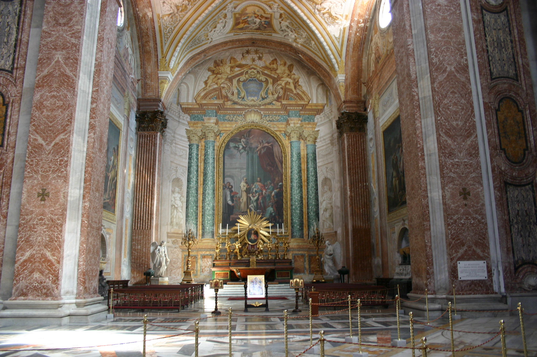 Santa Maria degli Angeli in Rome, Italy: inside view. The Albergati chapel. Picture by Giovanni Dall'Orto, June 17 2007.